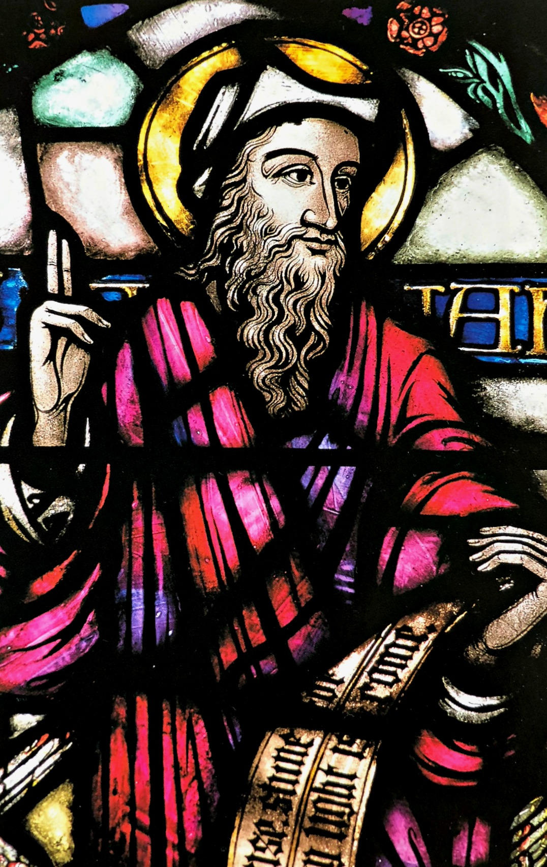 Isaiah window All Saints Church, Petersbourough.